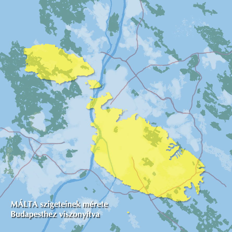 Malta projected on the outlines of Budapest, Hungary for size comparison